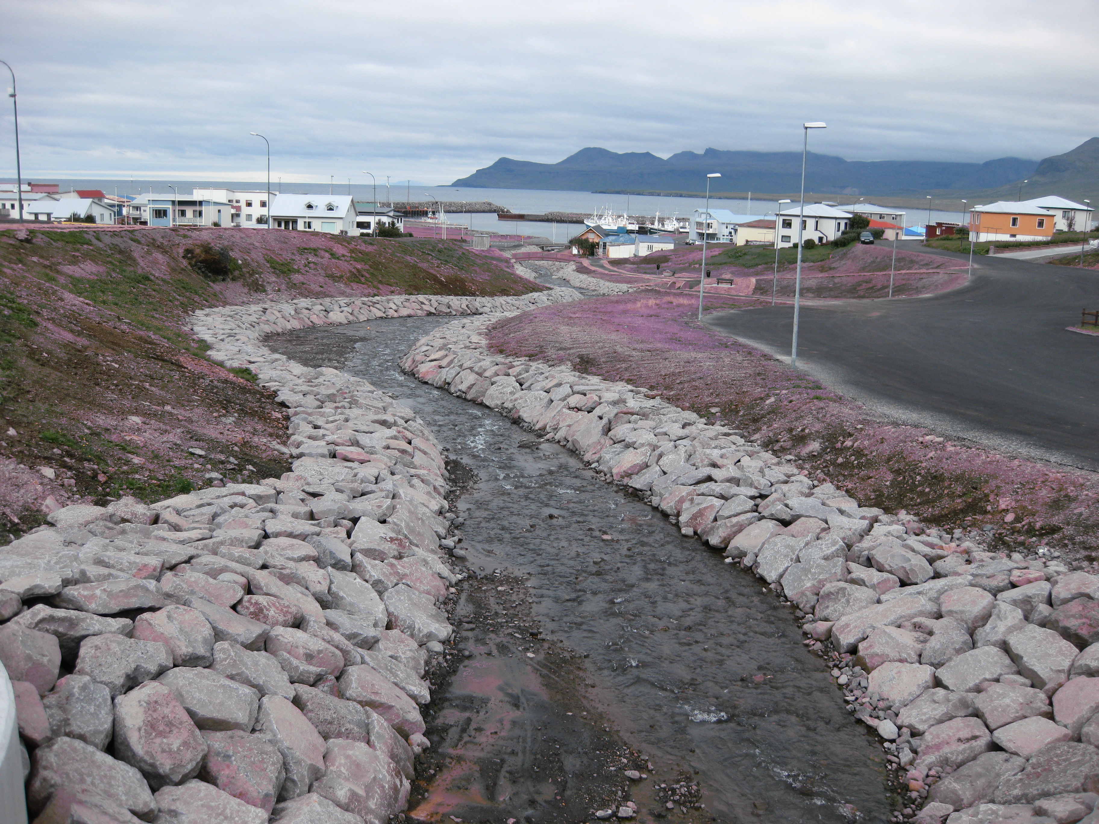 Small river crosses through the fishing town Ólafsvík in Snæfellsnes , Iceland. Photo by Salvor Gissurardottir in August 2008